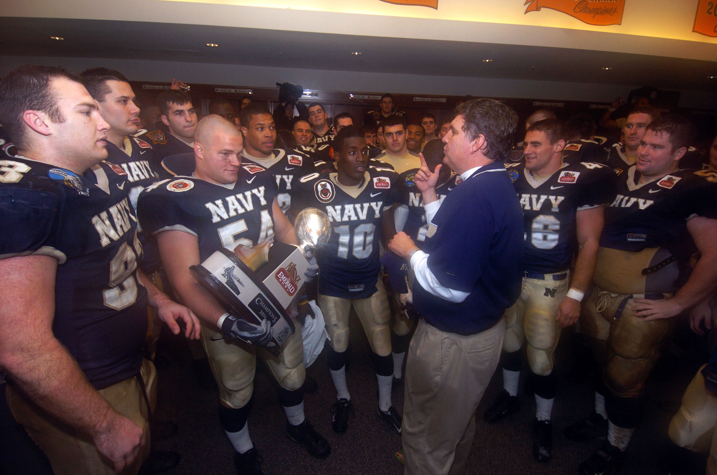 San Francisco, Calif. (Dec. 29, 2004) - U.S. Naval Academy head football coach Paul Johnson congratulates his team on a victory over the Lobos of New Mexico at the Emerald Bowl in San Francisco. Navy's win over New Mexico 34-19 gave them their first bowl win since 1996 and first 10 game winning record in 99 years.